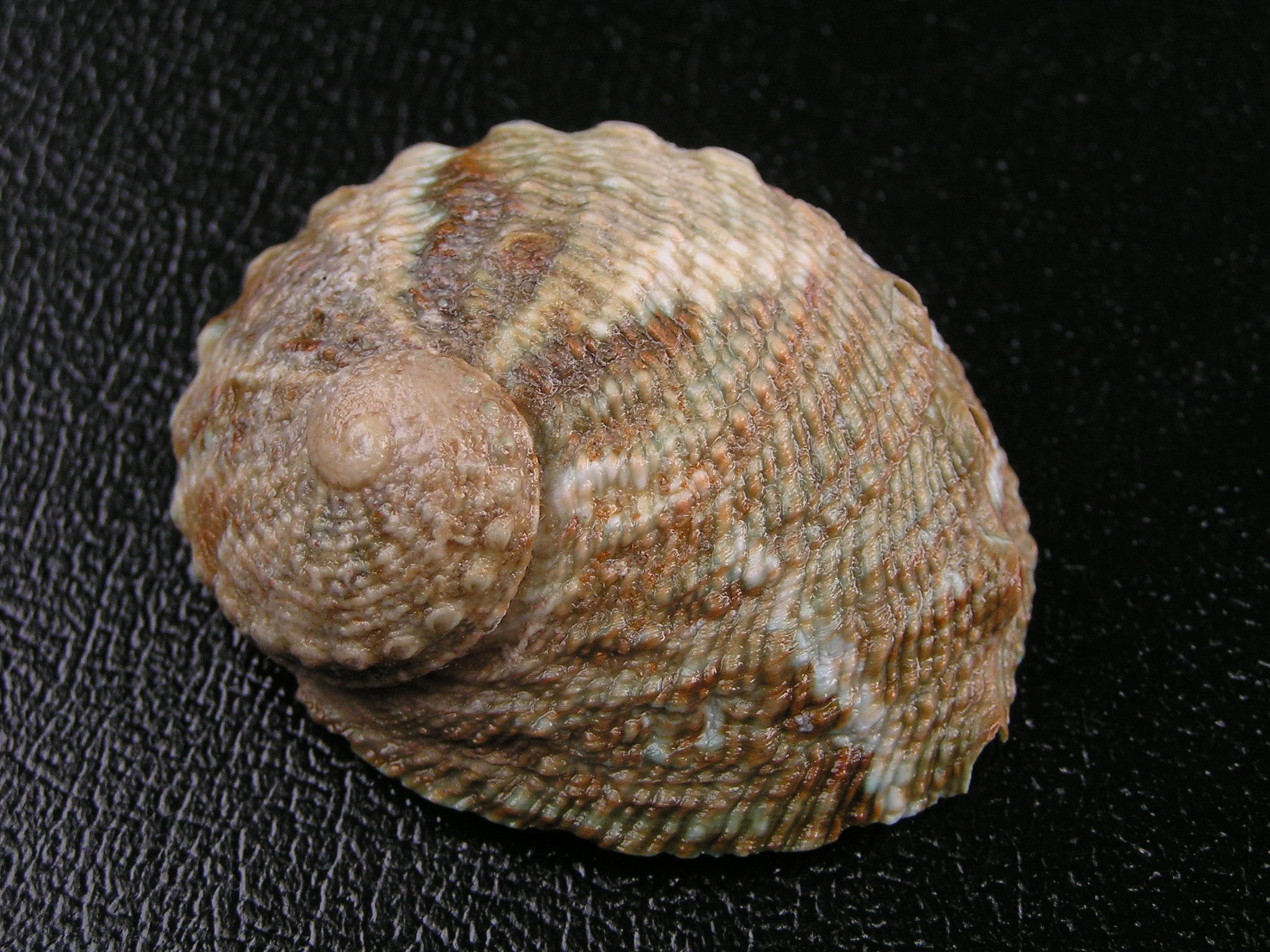 Dorsal view of a shell of H. cyclobates